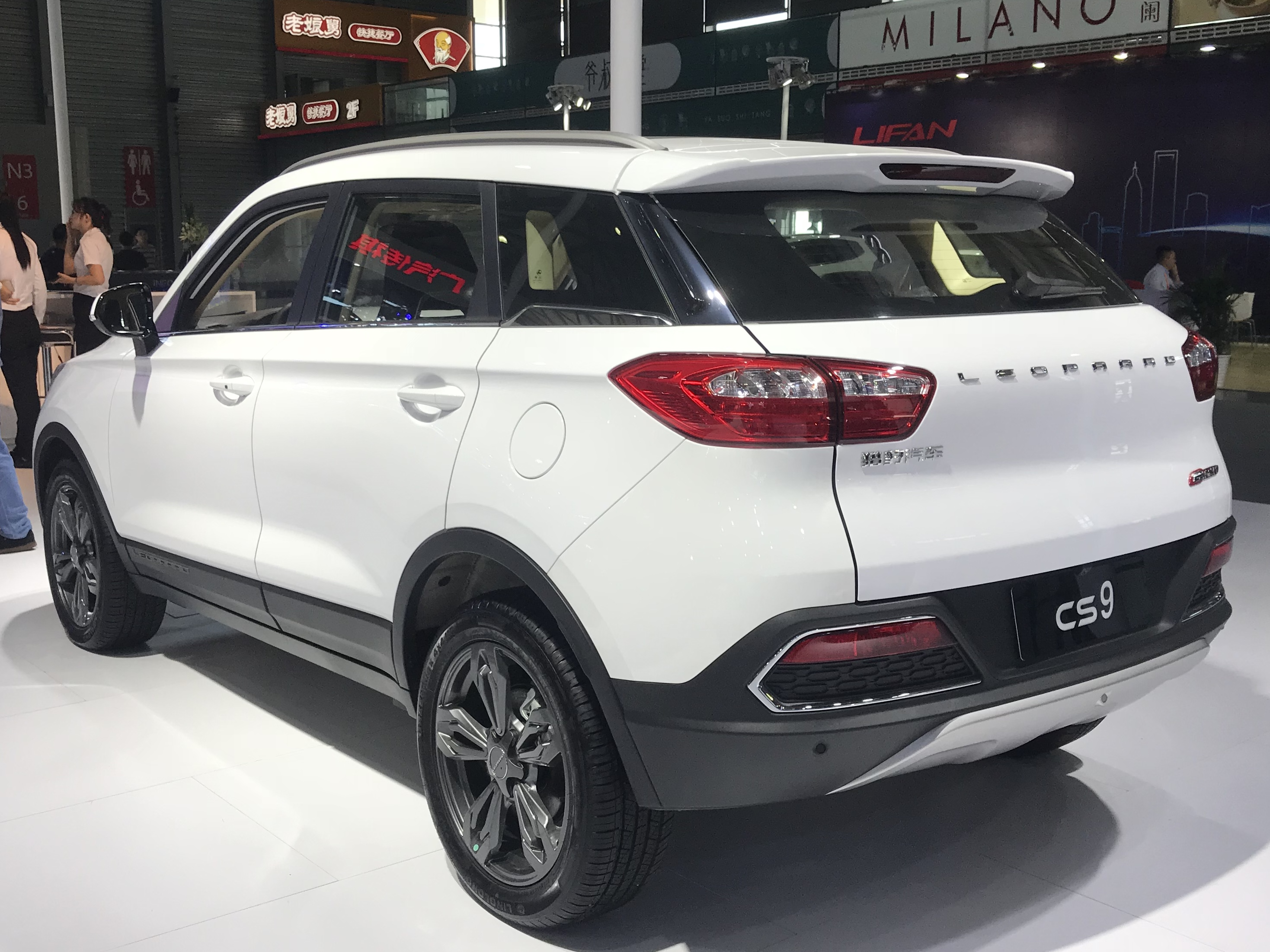 Leopaard CS9 rear